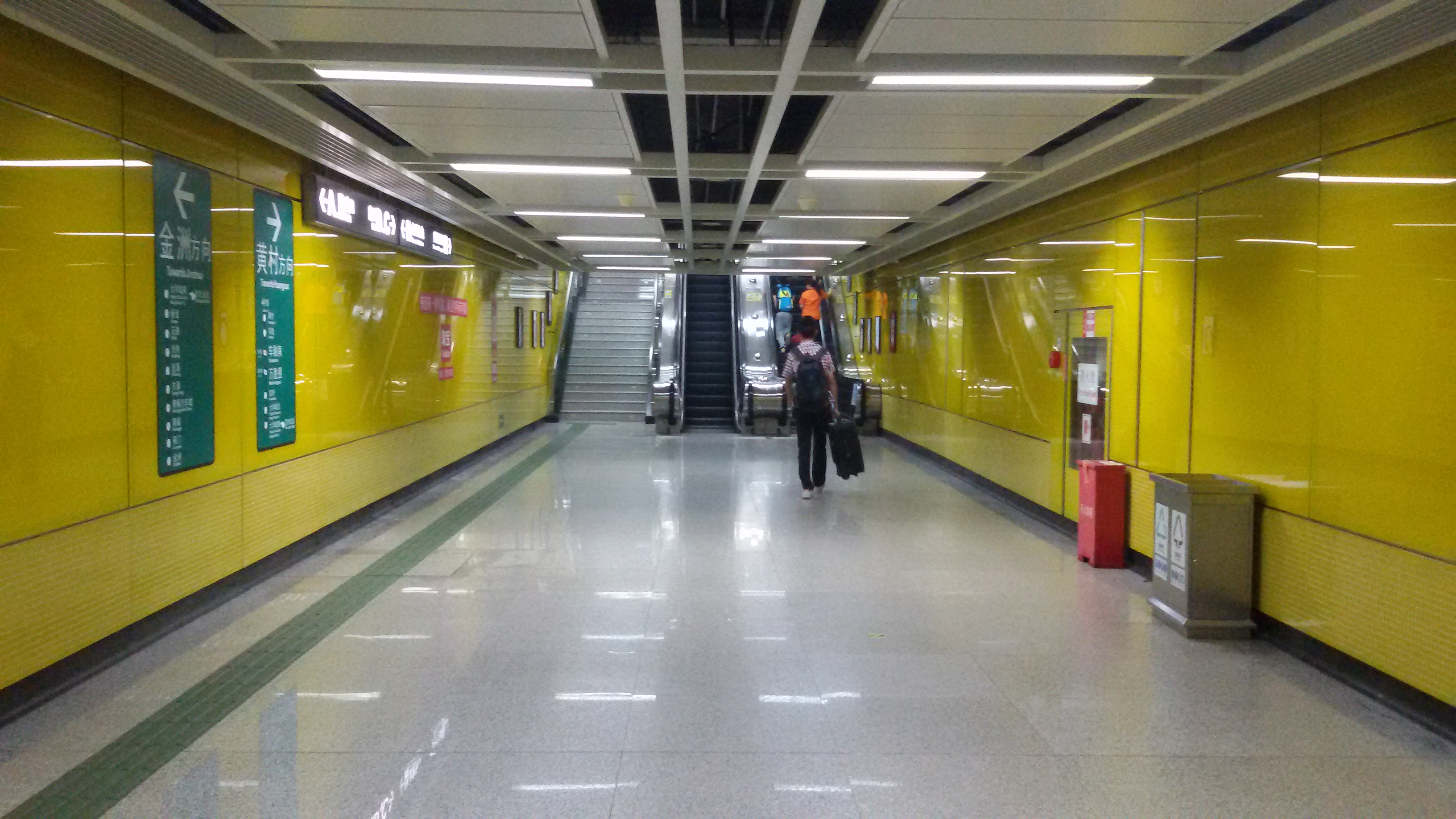 FREE connecting passage for HEMC South Station in Guangzhou Metro. 粵語: 廣州地鐵，大學城南站嘅地下聯絡通道（喺免費區入面）。